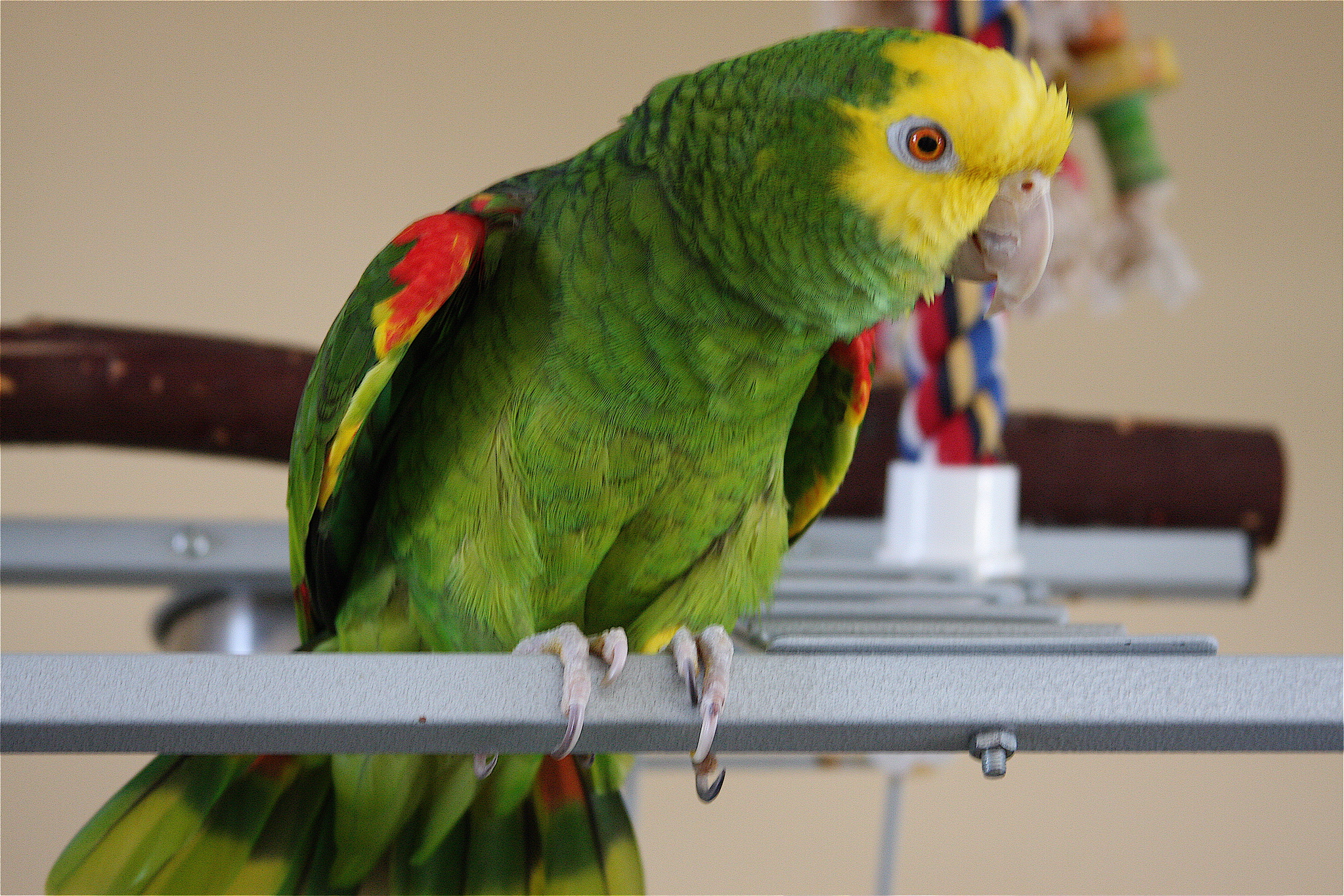 Yellow-headed Amazon (Amazona oratrix) playing on his cage.